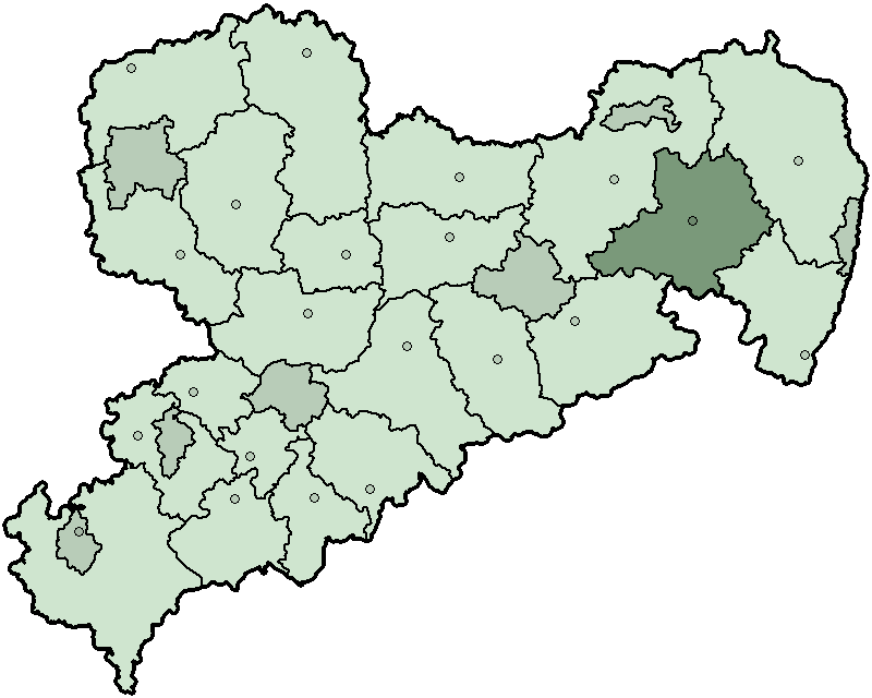 Map of the state Saxony in Germany before 2008, district Bautzen highlighted.